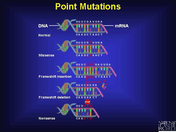 Examples of point mutations